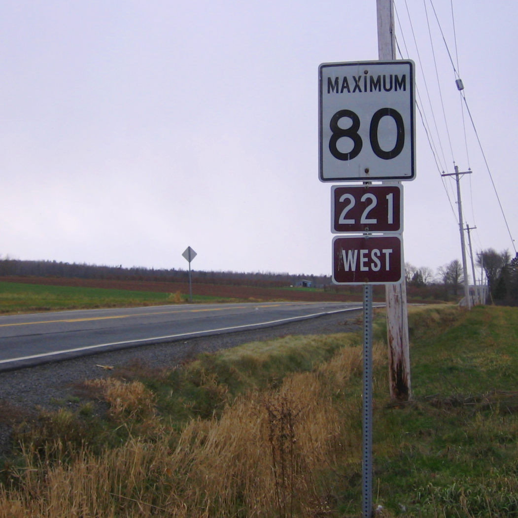 Photo of highway sign. Self made. Cropped.